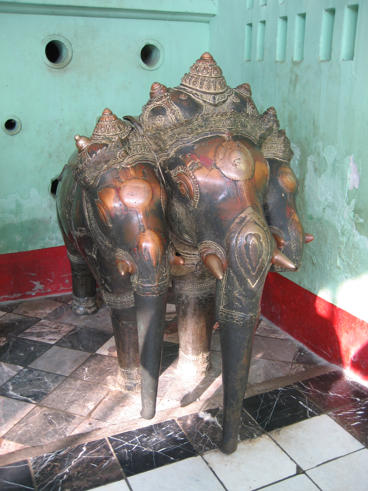 Khmer bronze at Mahamuni, Mandalay, Burma